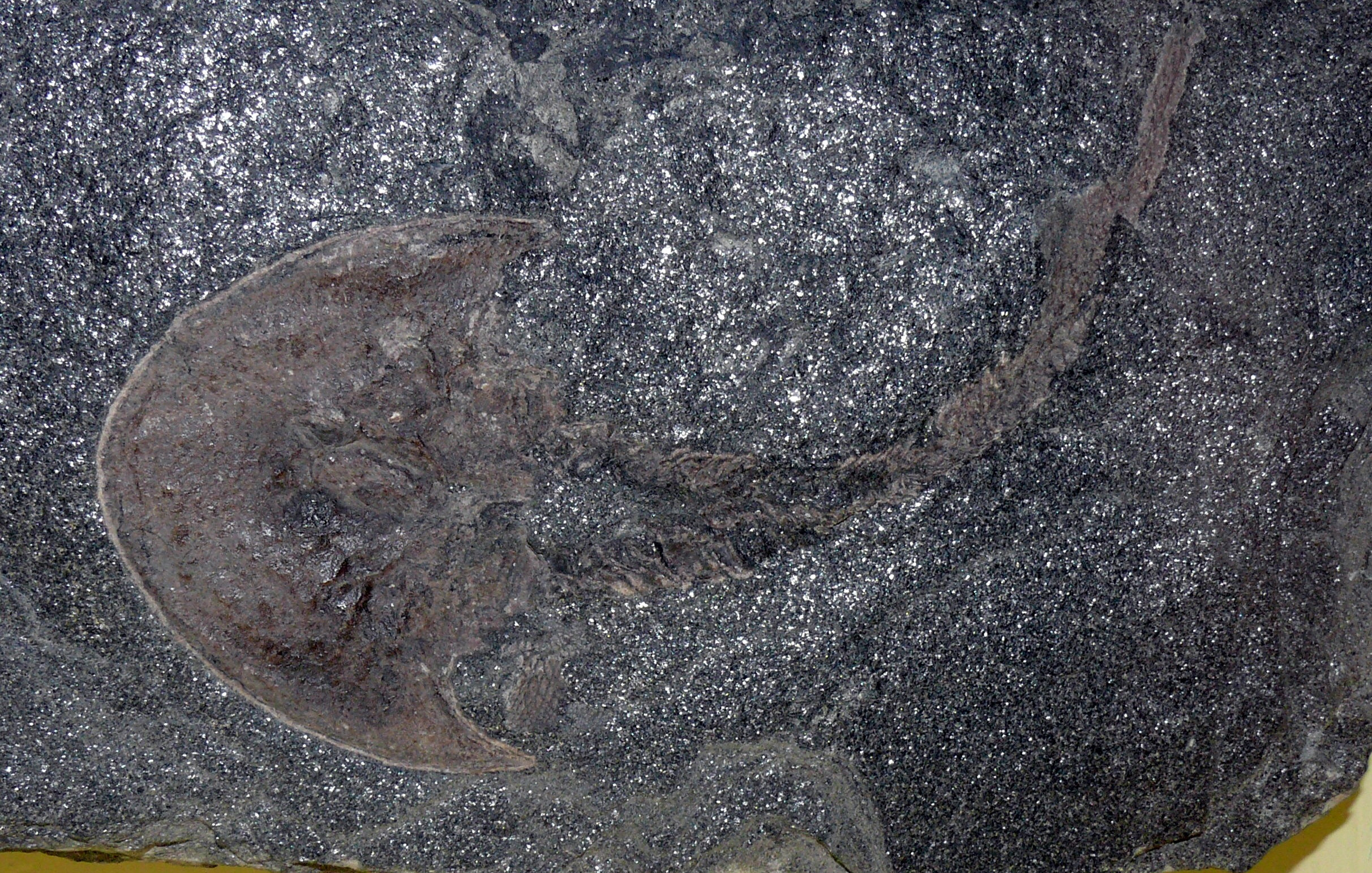 Hemicyclaspis Downtonian, Devon, England